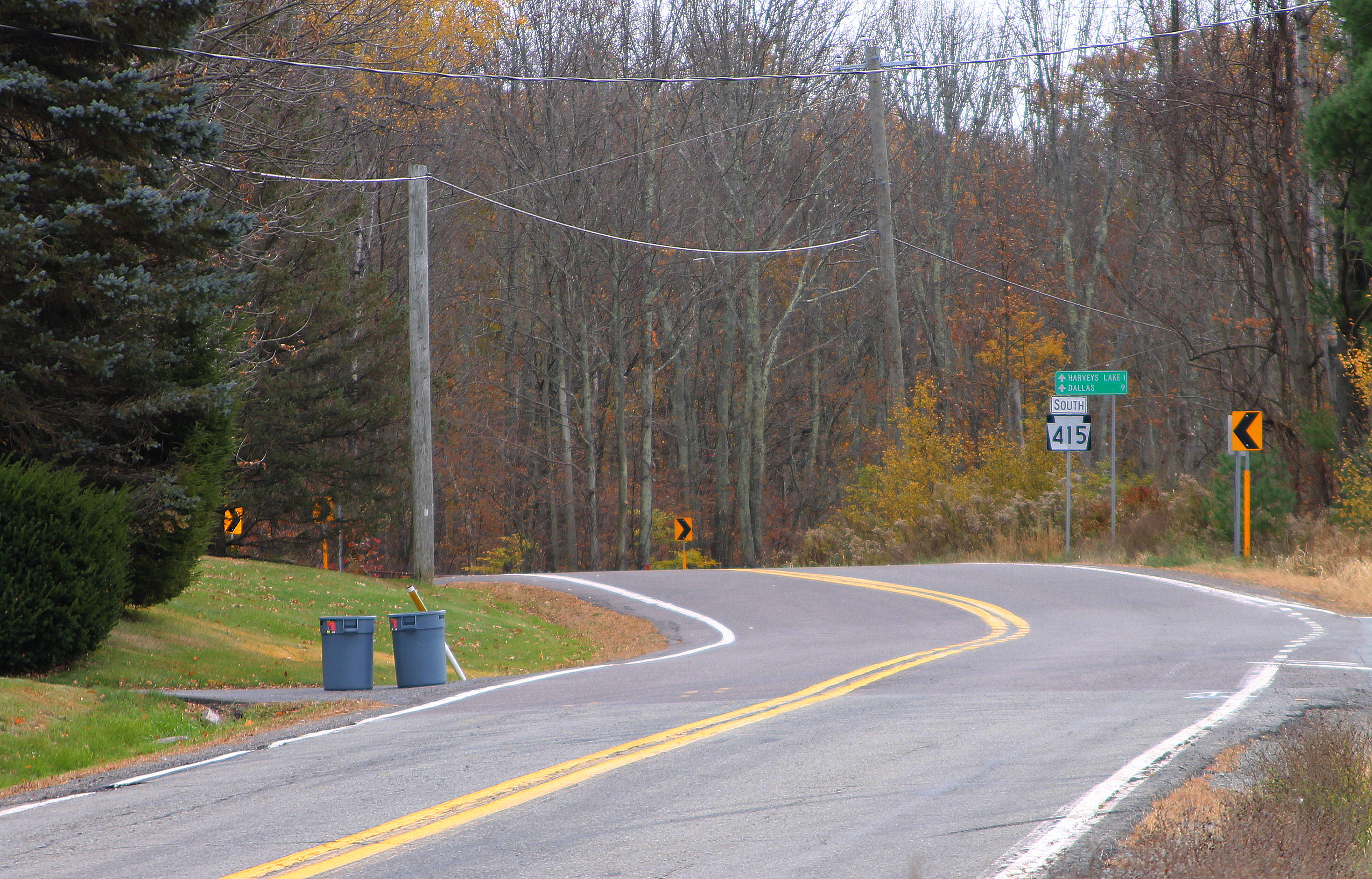 Northern terminus of Pennsylvania Route 415 looking south